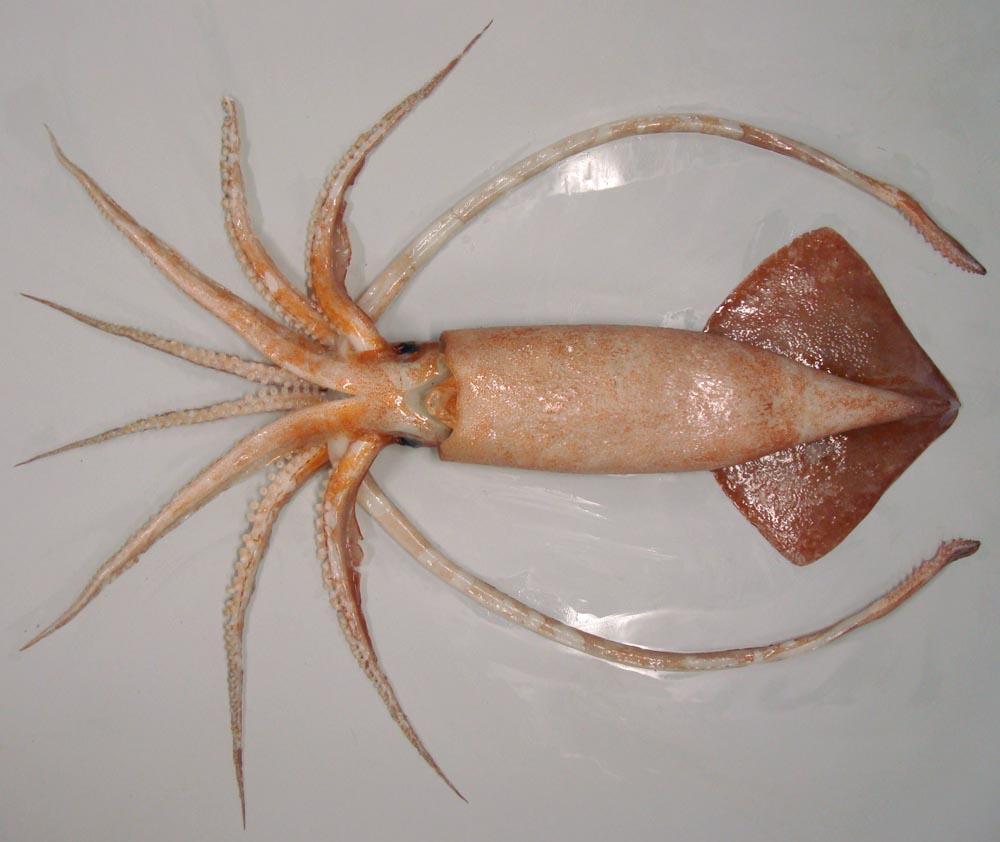 Onykia ingens mature female (384 mm ML, 1875 g weight) from SW Chatham Rise (near New Zealand) at 44°21'S, 175°32'E (caught in bottom trawl at about 690 m depth)